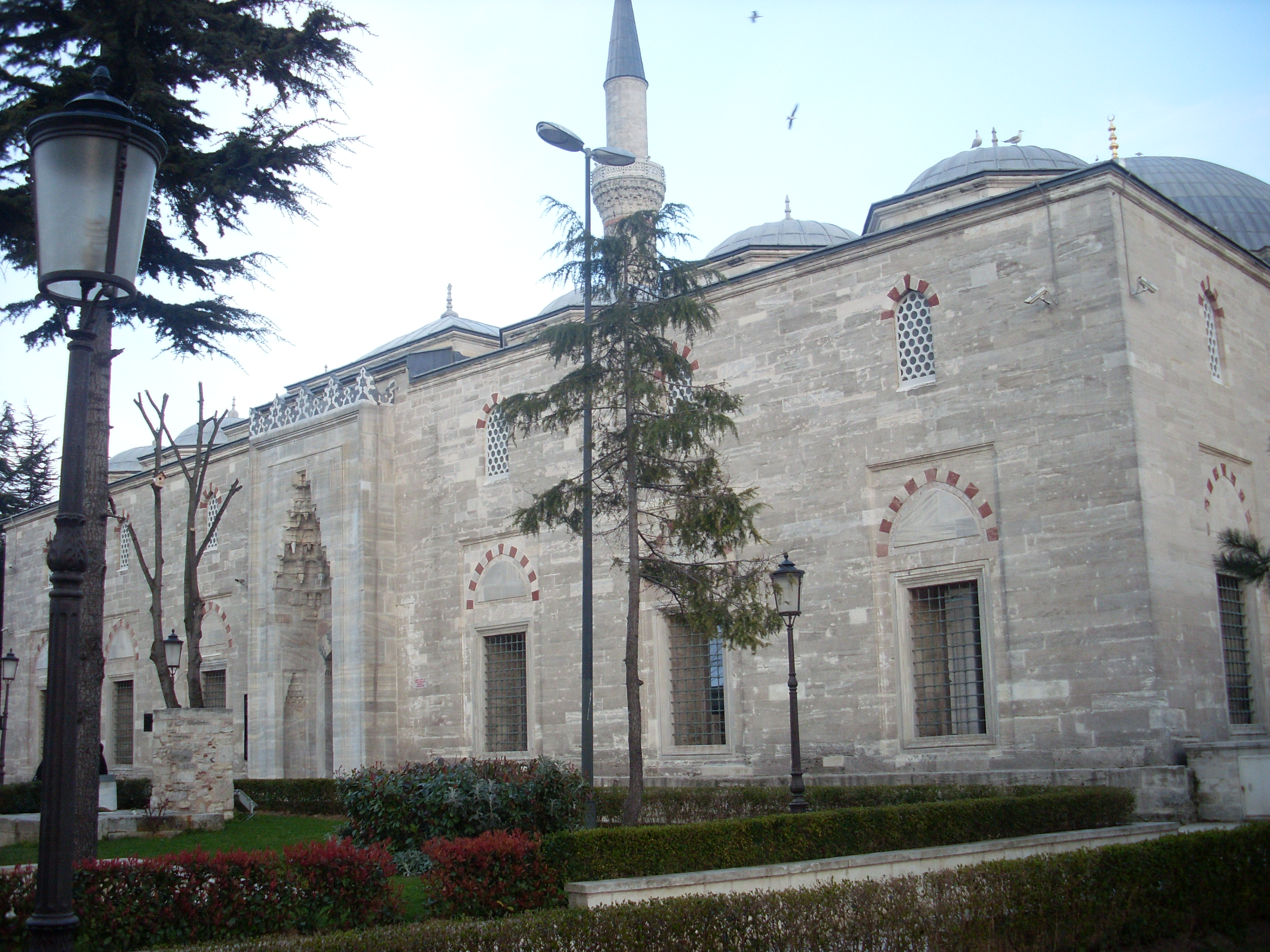 İstanbul - Yavuz Selim Mosque- Mart 2013 - r12